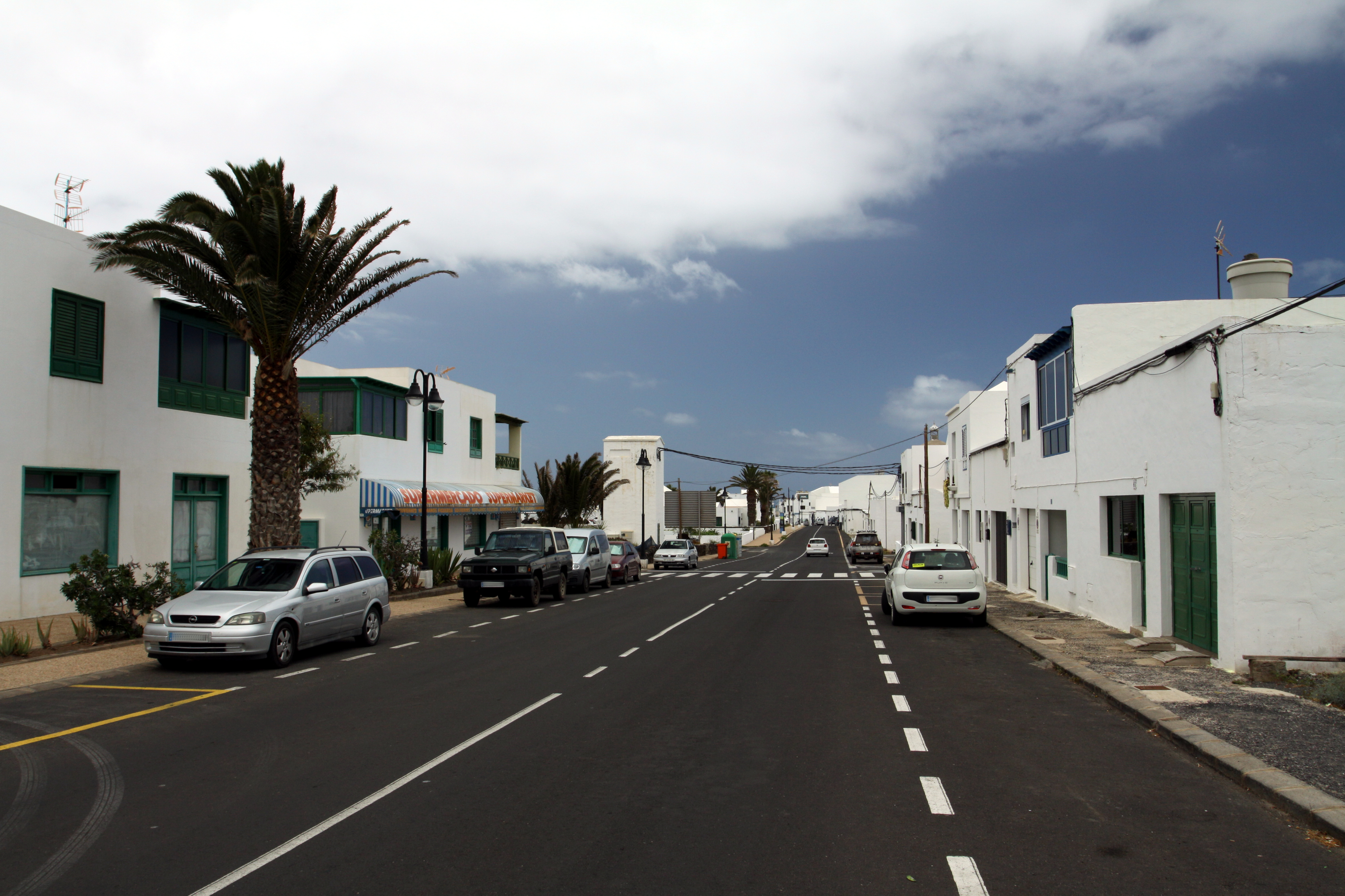 Street Calle la Quemadita in village Orzola on Lanzarote, the Canary Islands, Spain - OpenStreetMap(Info)